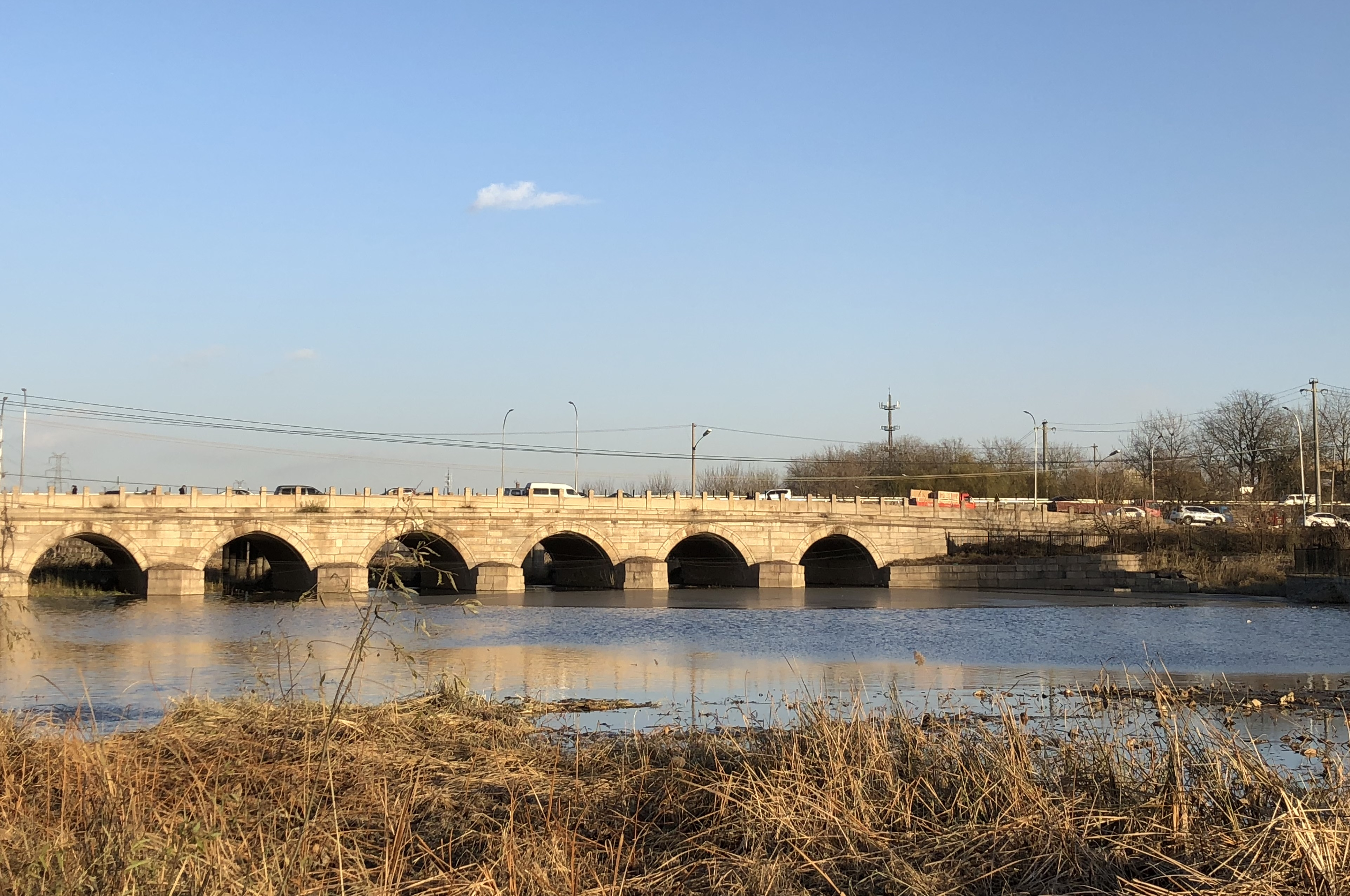 北沙河上的朝宗桥